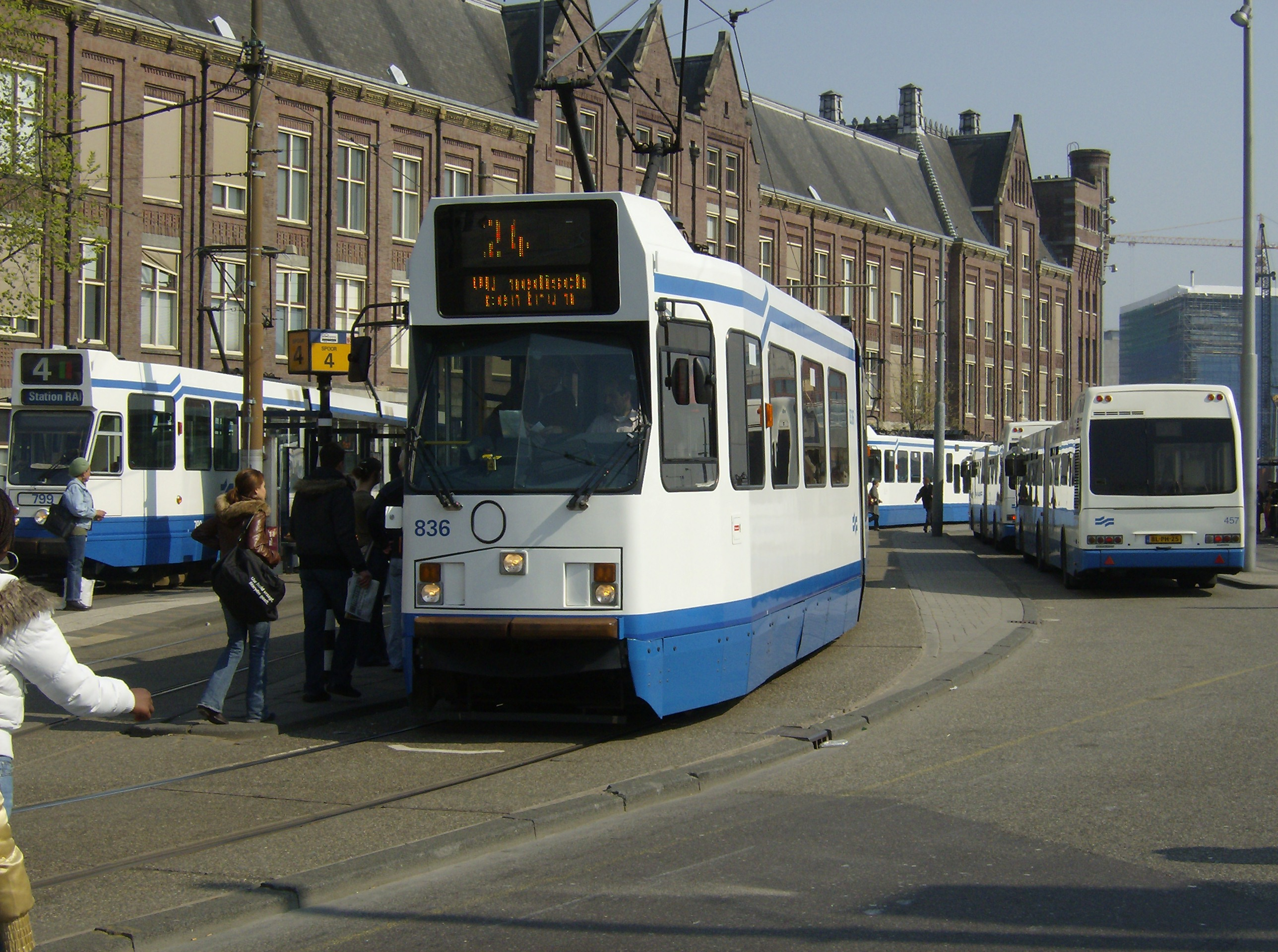 East Side Tram Stops. Berkhof Jonckheer bus?